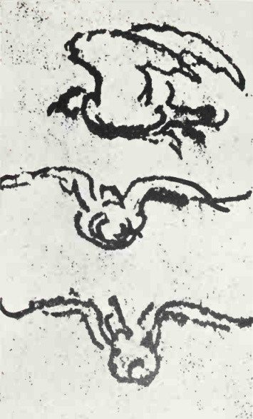 Leonardo da Vinci, drawings of a bird in flight